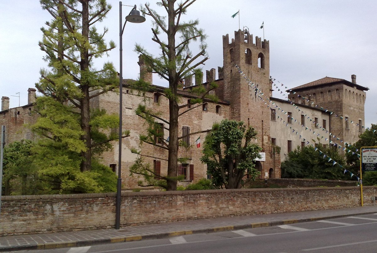 Medieval Castle in Sanguinetto - Verona - Italy